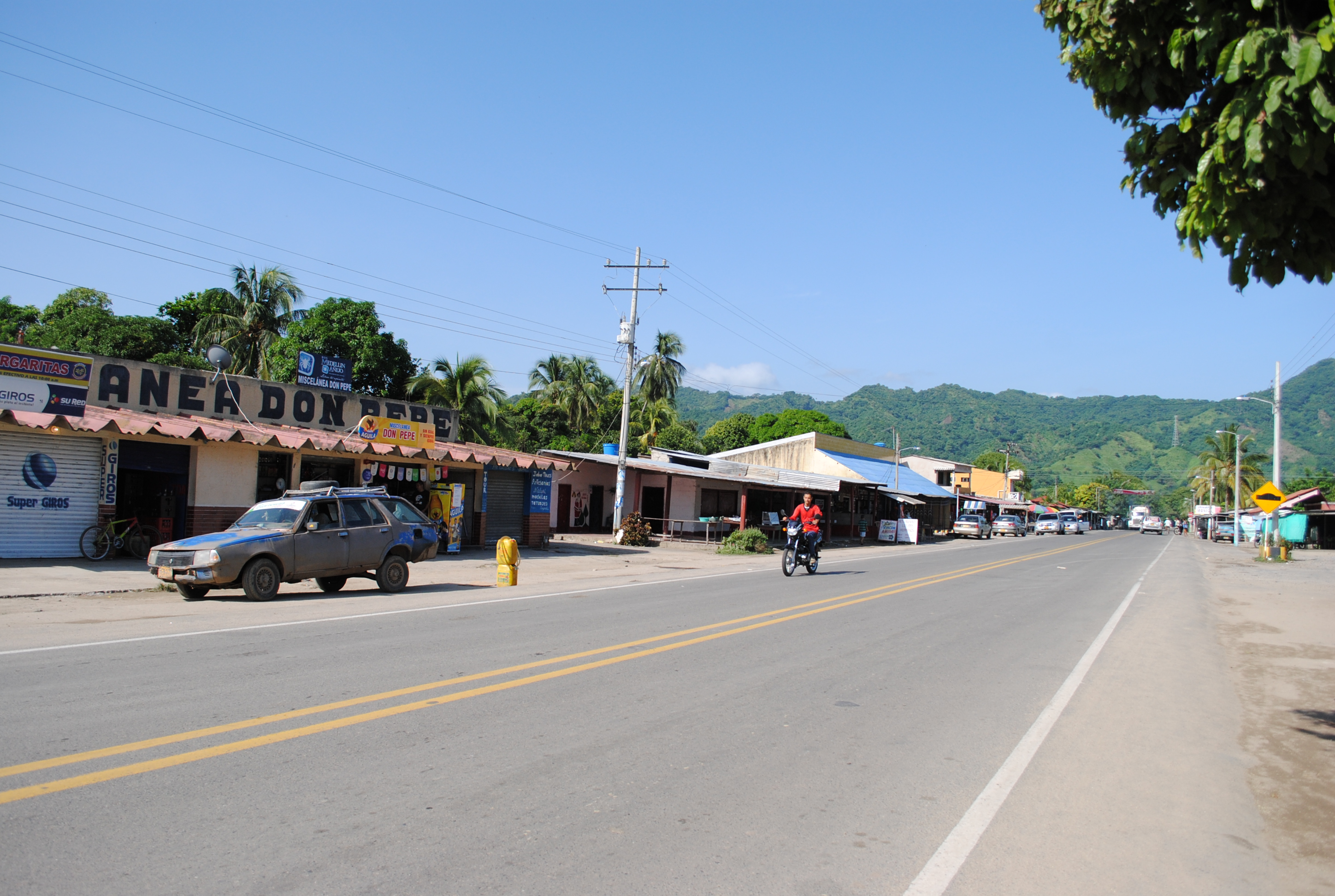 The road that passes through Palomino, La Guajira.